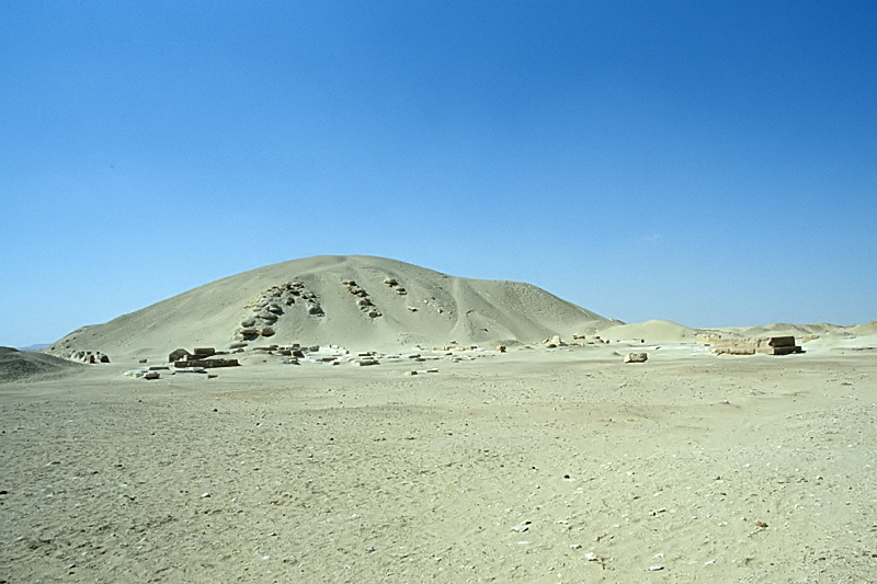 East side of the south pyramid of Sesostris I, Lisht, Egypt